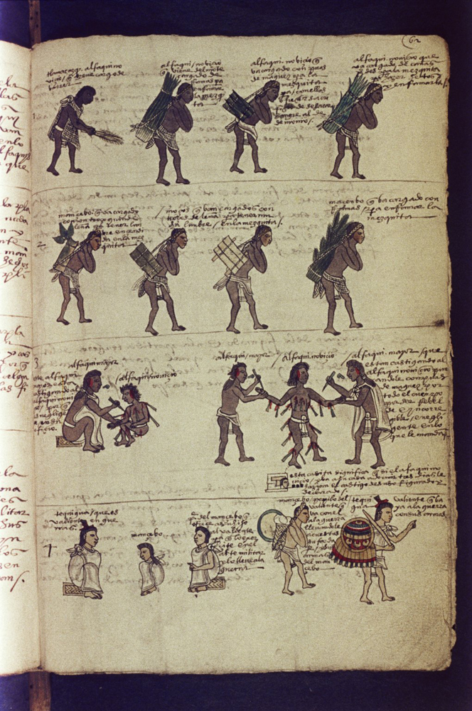 Folio 62r from the Codex Mendoza. Priestly and military training for boys, in alternating rows: (1) (calmecac career) Novice priests with faces and bodies painted black. The one on the left is sweeping, the other three carry loads to the temple: boughs for decoration, maguey spikes for drawing blood, and green canes for fencing and decoration. (2) (telpochcalli career) Youths with bodies painted black, but faces brown, carry loads of firewood and decorative branches to their ‘temple’ (i.e. school), perhaps as part of their initial physical training for the military. (3) (calmecac) Punishments for the novices, whose faces now wear the priestly smear of blood in front of the ear: a head priest punishes a novice for negligence in his duties by drawing blood; and a truant is pierced with spikes all over his body for spending three days at home. (4) (telpochcalli) The start of military training proper. On the left, a high-grade warrior (tequigua) receives the son from his father. On the right, the youth, carrying baggage and shield on his back, follows the warrior to war; the warrior carries a feathered shield and a pointed wooden club. Shelfmark: MS. Arch. Selden. A. 1